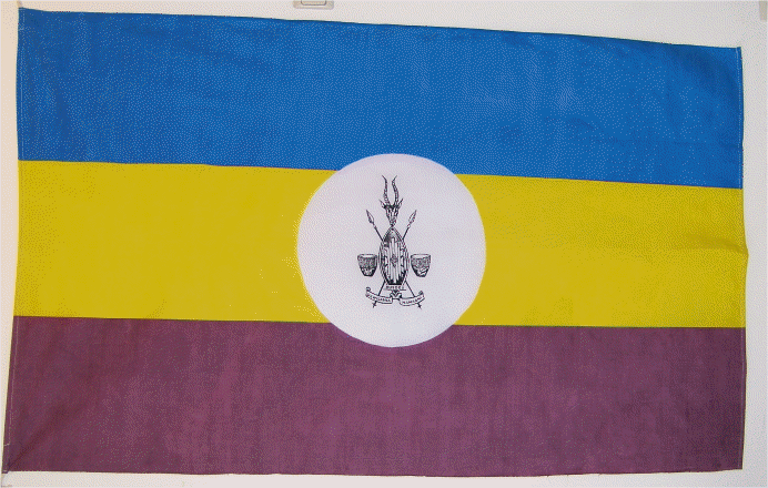 Modern flag of Busoga, photo